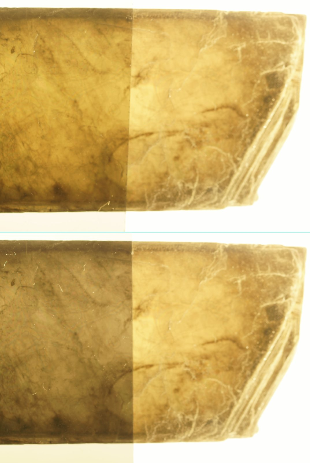 Combined pictures of a light grey mica specimen. Left part is seen through a polarizer where the lower one is turned 88.3 degrees. There is only a slight colour change shown. Mica of unknown composition and locality. Viewed in direction [001] in incandescent light. Image width =4 cm.